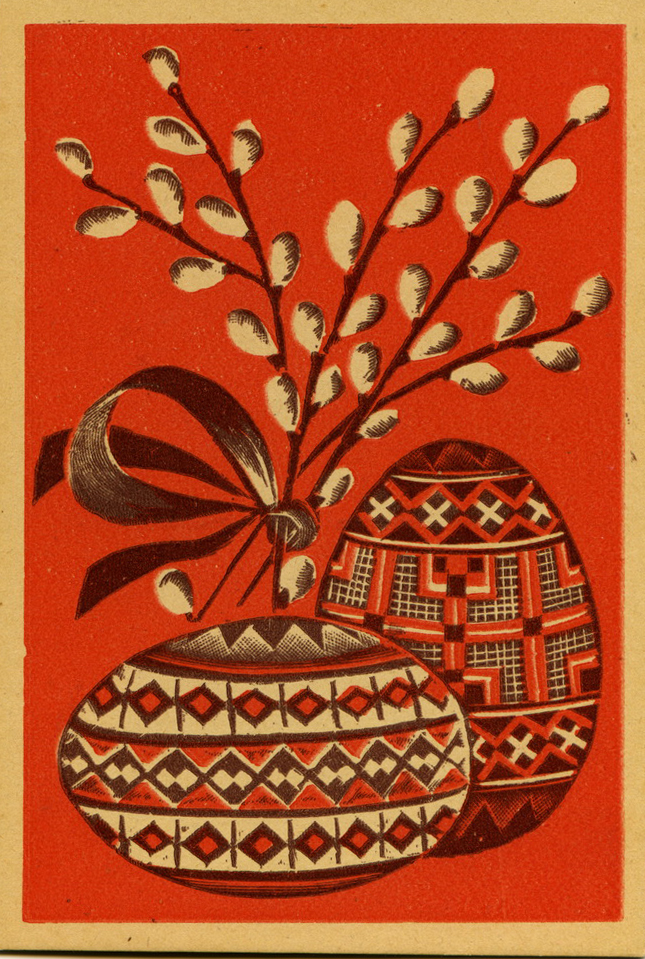 Old Russian Easter Postcard